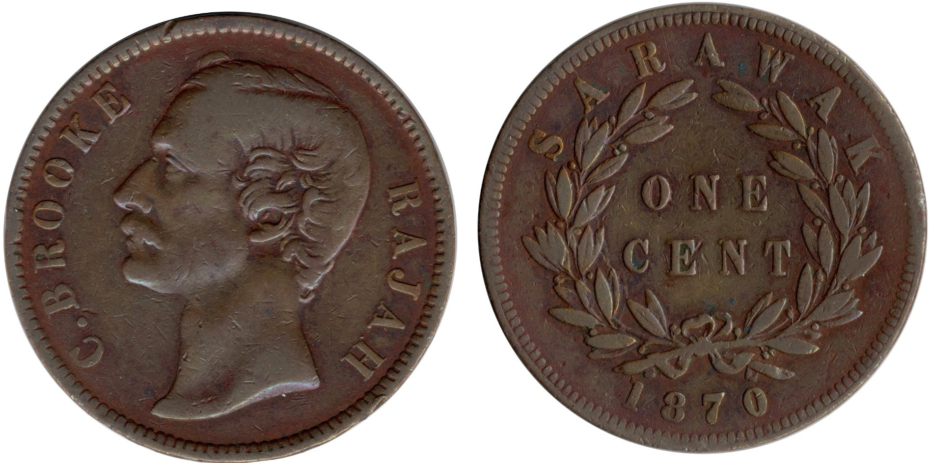 One cent coin from Sarawak. Dated 1870